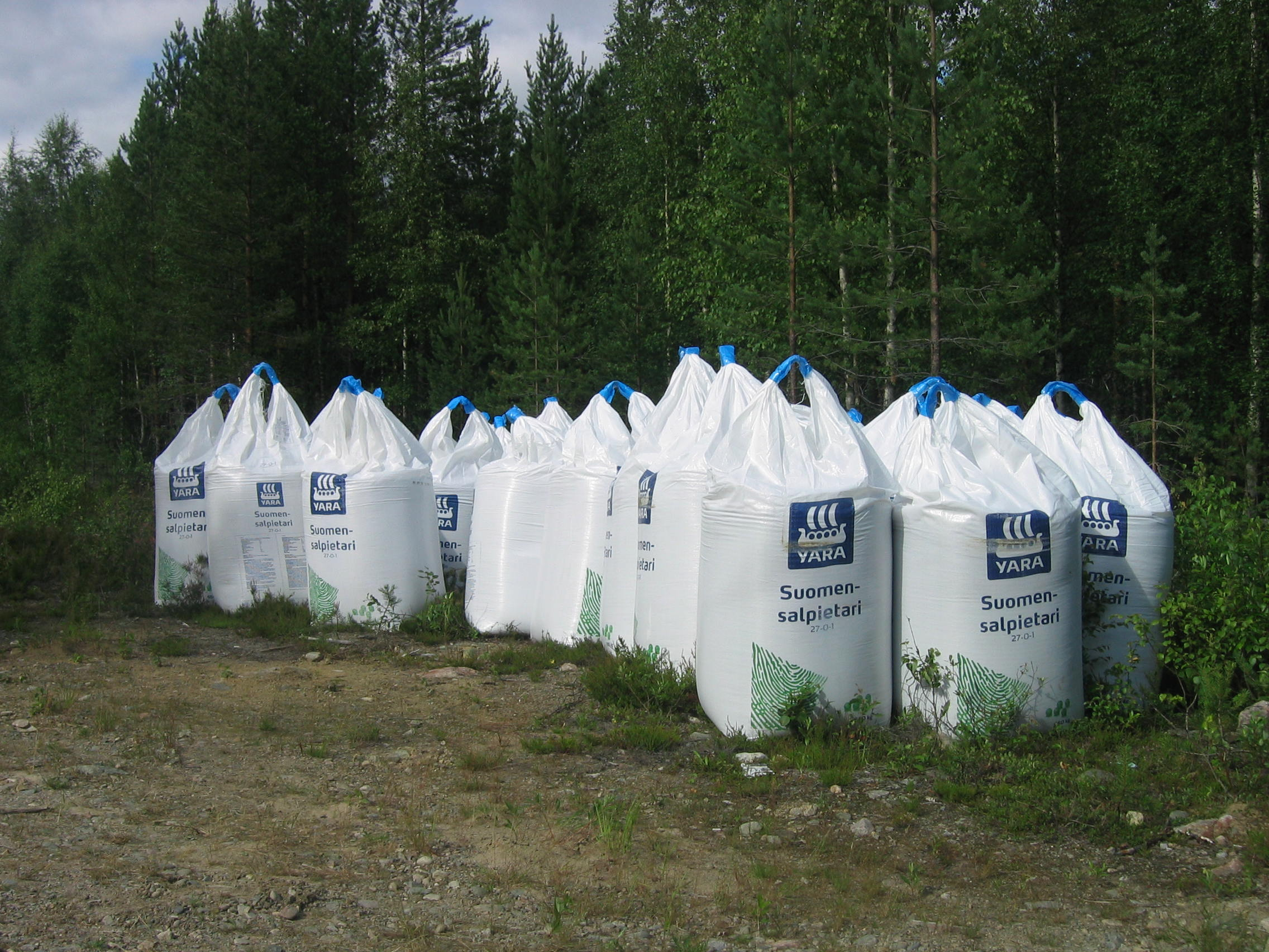 Forest fertilizer bags at Hillatie in Juorkuna, Utajärvi, Finland